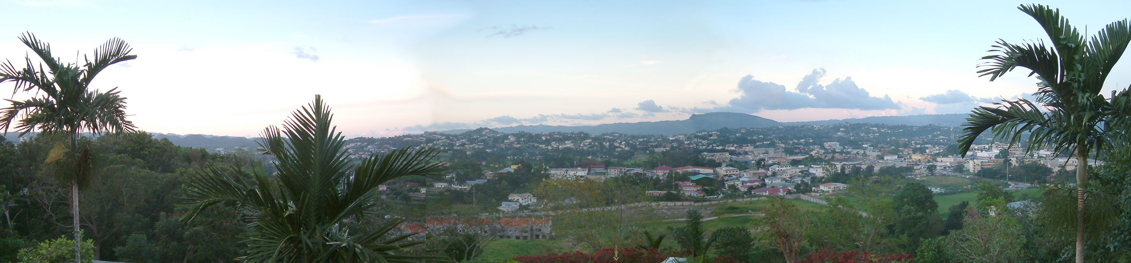 Photo by User:Op. Deo November 11,en:2005. Taken from Bloomfield Great Hall looking north over Mandeville.